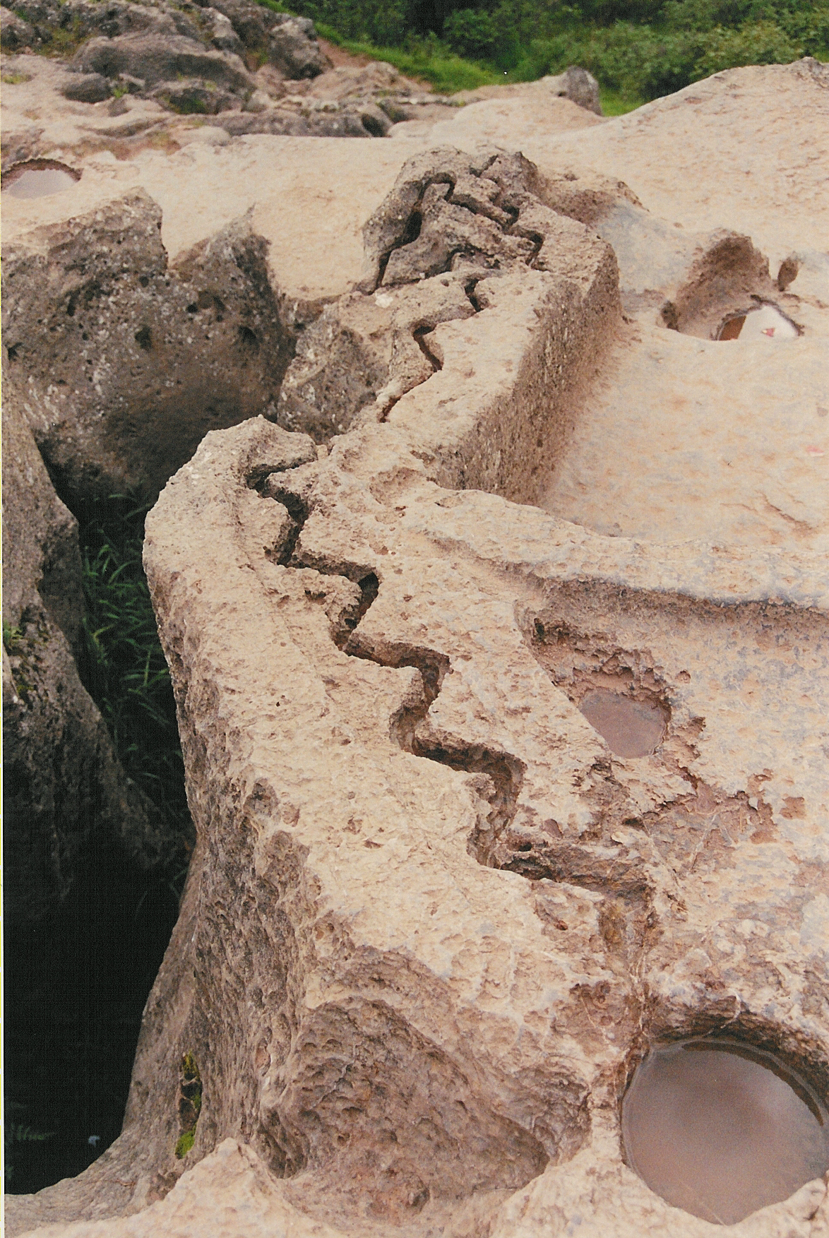 Qenko Archaeological site (snake)